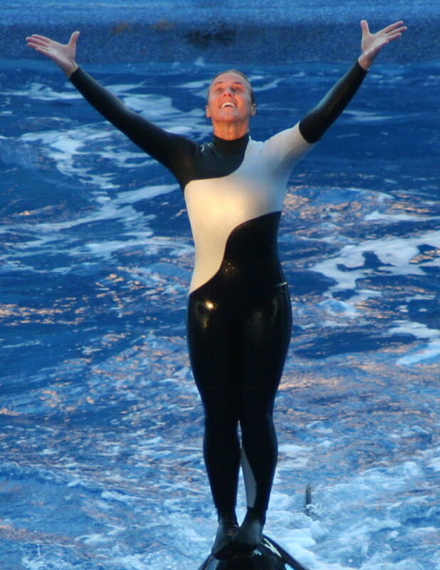 Dawn Brancheau at the Riders of the Storm show, at SeaWorld, Orlando, Florida, in 2006. She would be killed by the orca Tilikum in 2010.